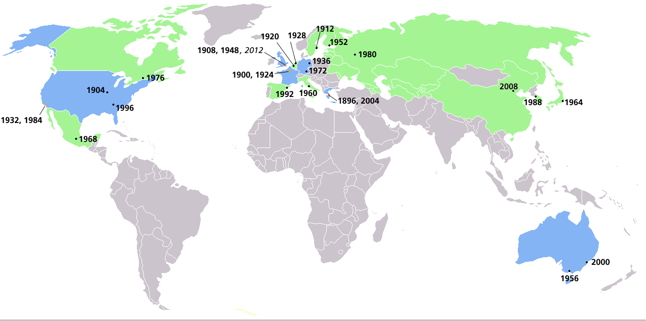 Map of Summer Olympic host cities, with a color delineation based on the number of times the country has hosted a summer Olympics. NOTE: Three states holding the Summer Olympics do not exist anymore: Nazi Germany (1936), West Germany (1972), and the USSR (1980).